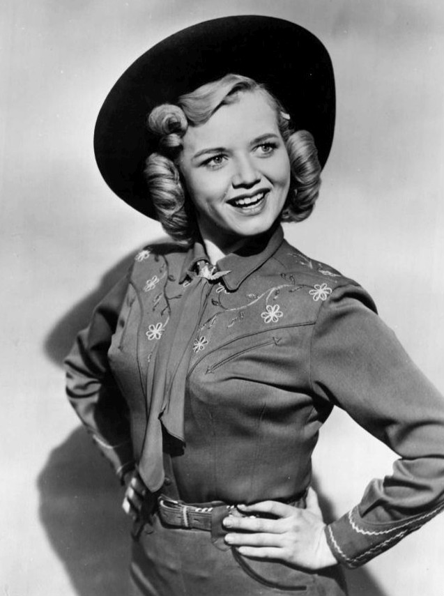 Photo of Gloria Winters as Penny from the television program Sky King.